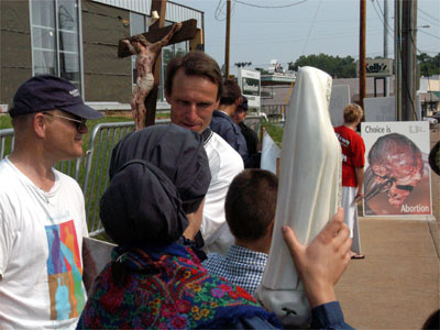 Uploader, Mark Lyon, took this image. It is not available elsewhere online. ©2006 Mark Lyon Somre Rights Reserved under Creative Commons Attribution 2.5 License.